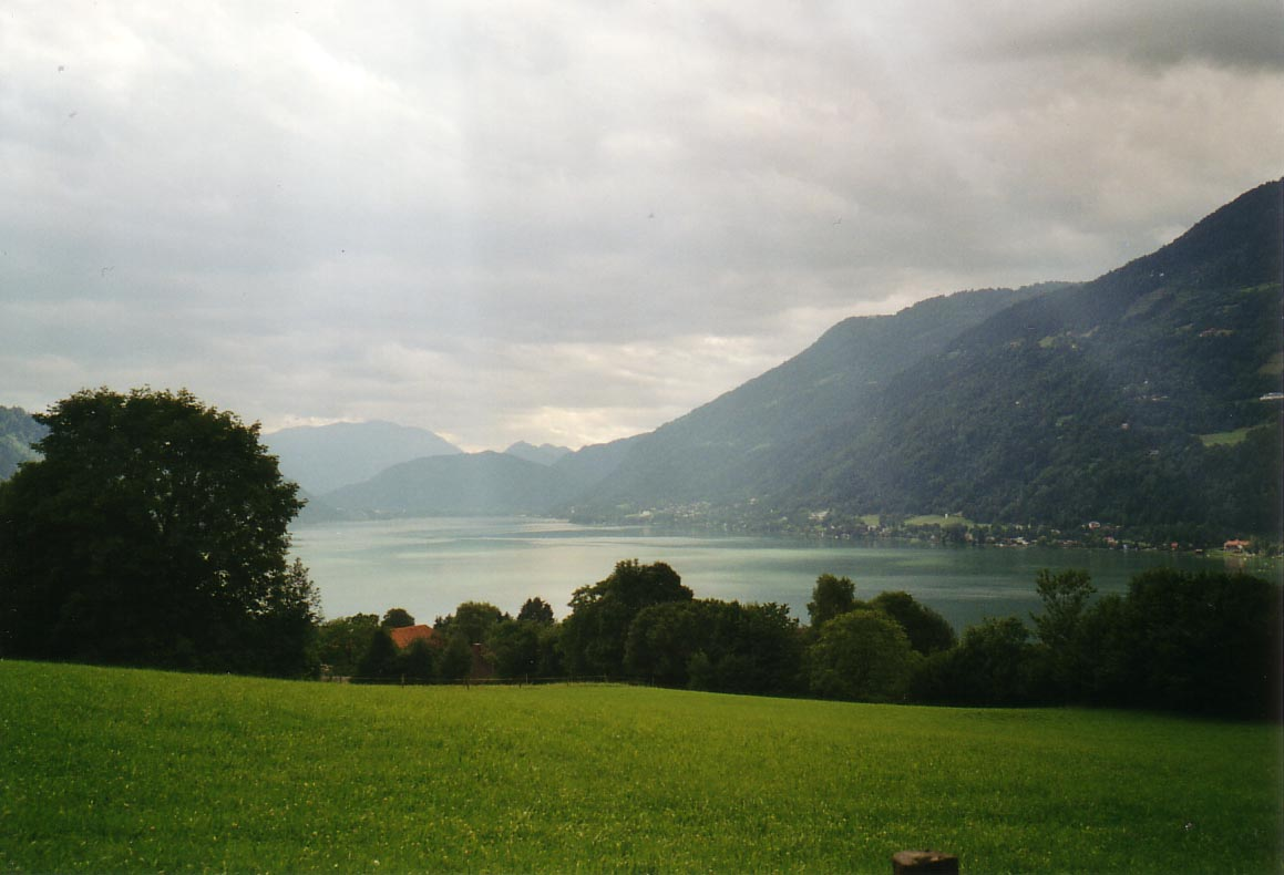 Lake Ossiacher, Austria.